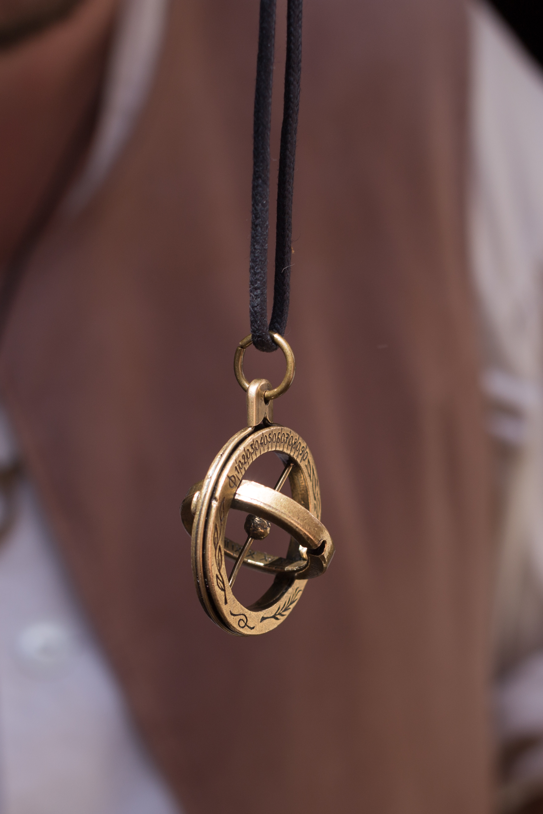 Picture of a ring (traveler's) sundial, opened.